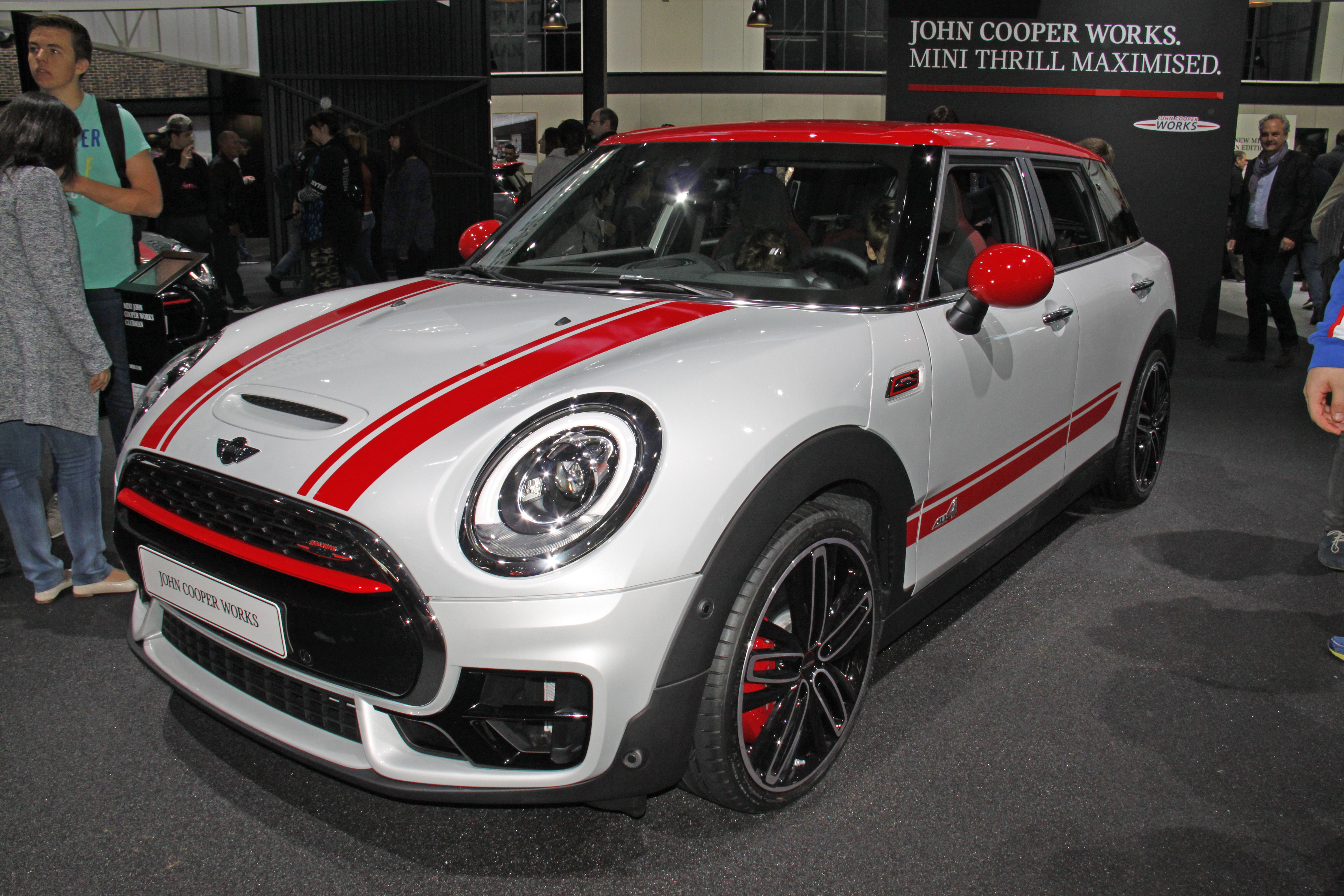 Mini Clubman John Cooper Works at the 2016 Paris Motor Show